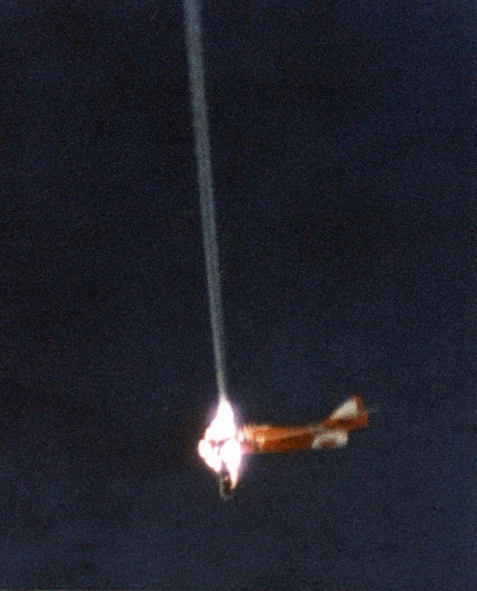 An AIM-9L Sidewinder air-to-air missile strikes a Grumman QF-9J Cougar target drone over the U.S. Navy Naval Weapons Center (NWC) China Lake, California, 27 June 1973.